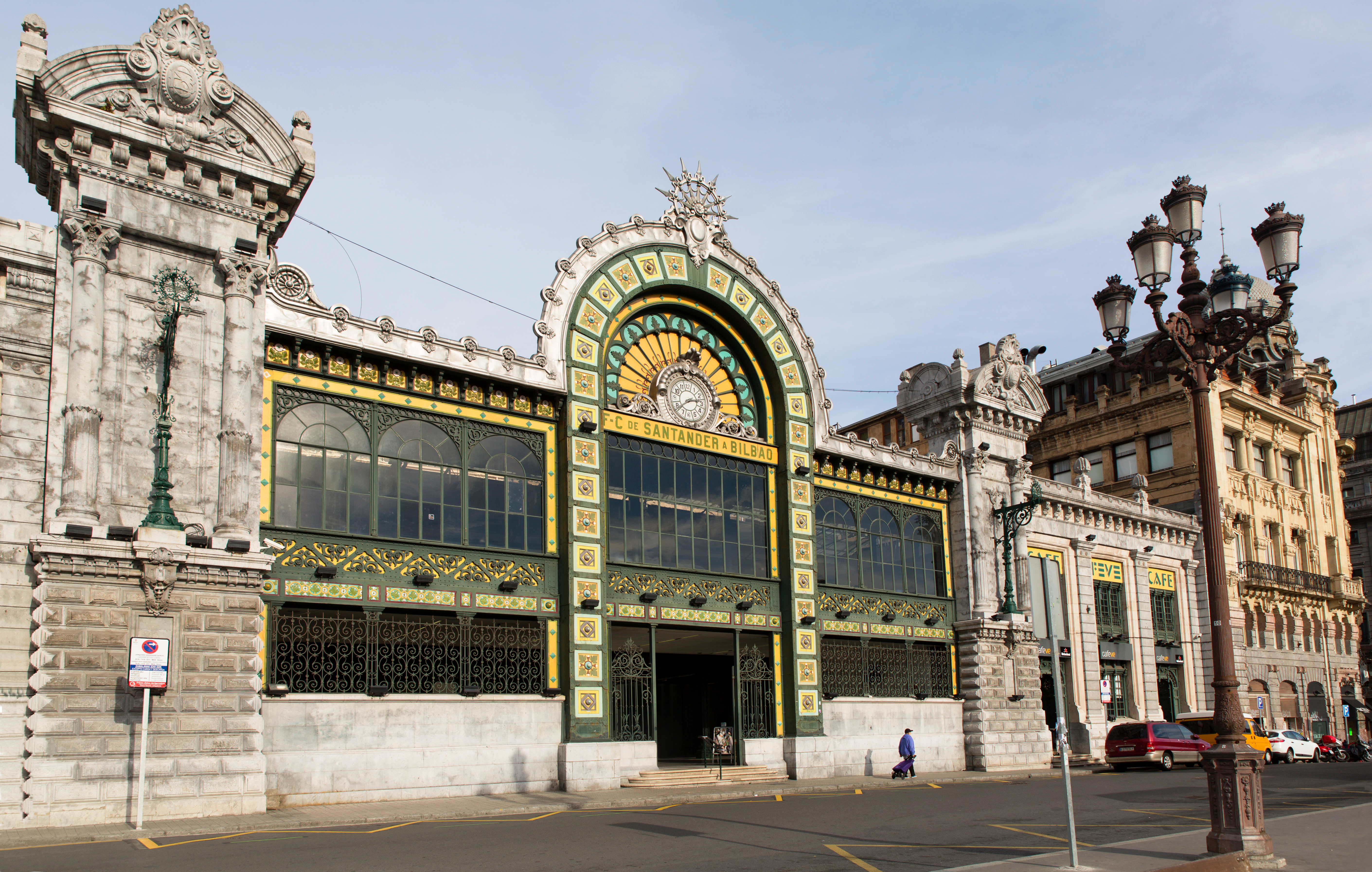 Concordia FEVE Station